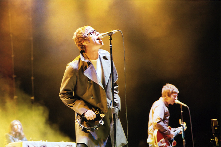 Liam and Noel Gallagher of Oasis performing in San Diego on September 18, 2005.